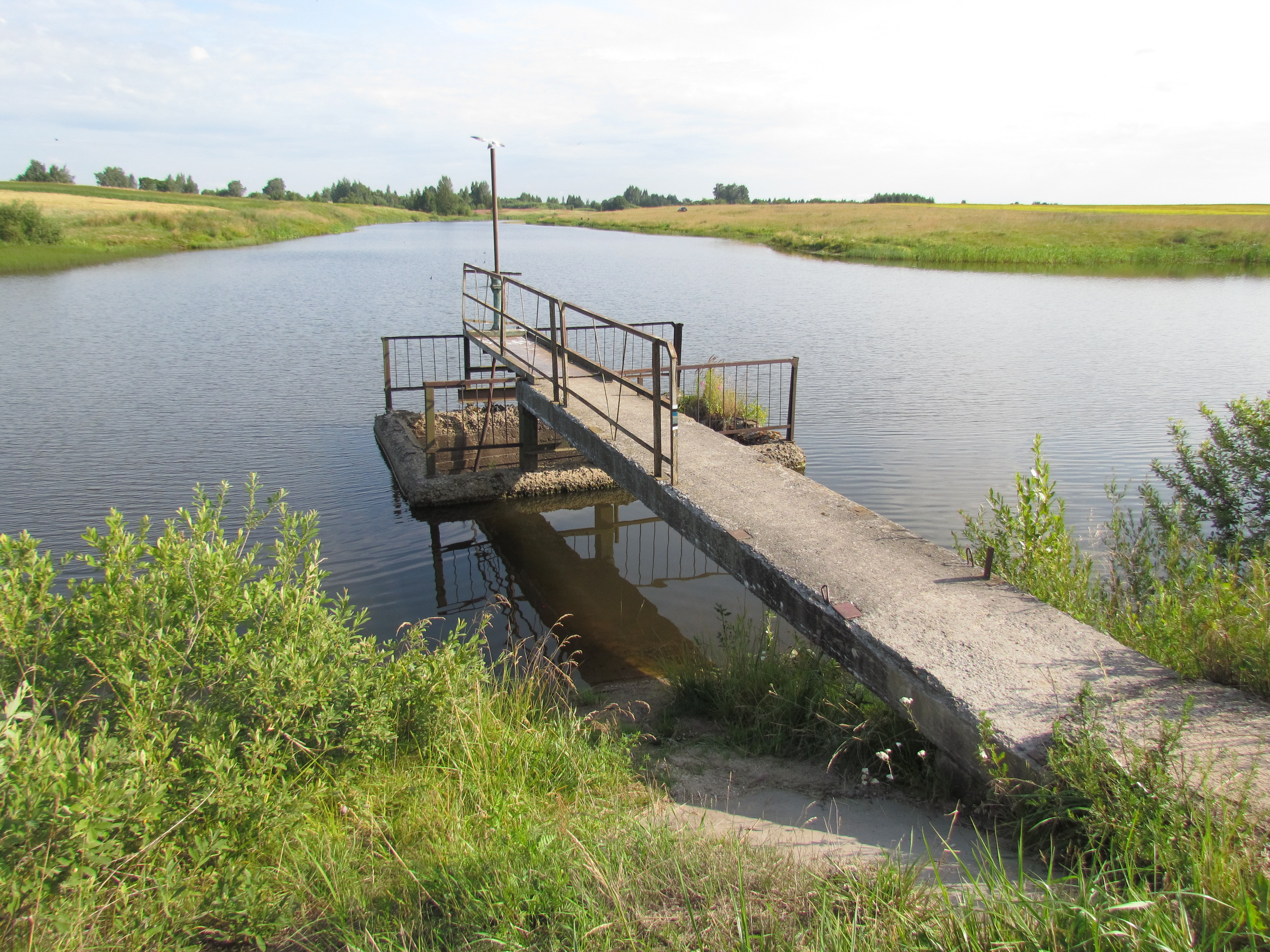 Tributary of the river Dnieper — Niehaŭka. River reservoir. Spillway control device. Orsha District. Belarus. Беларуская (тарашкевіца): Правы прыток Дняпра — Негаўка. Вадасховішча. Вадазьліў. Аршанскі раён Беларусі.